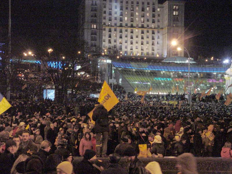 Kyiv's Independence Square during the Orange Revolution, 22 Nov 2004.